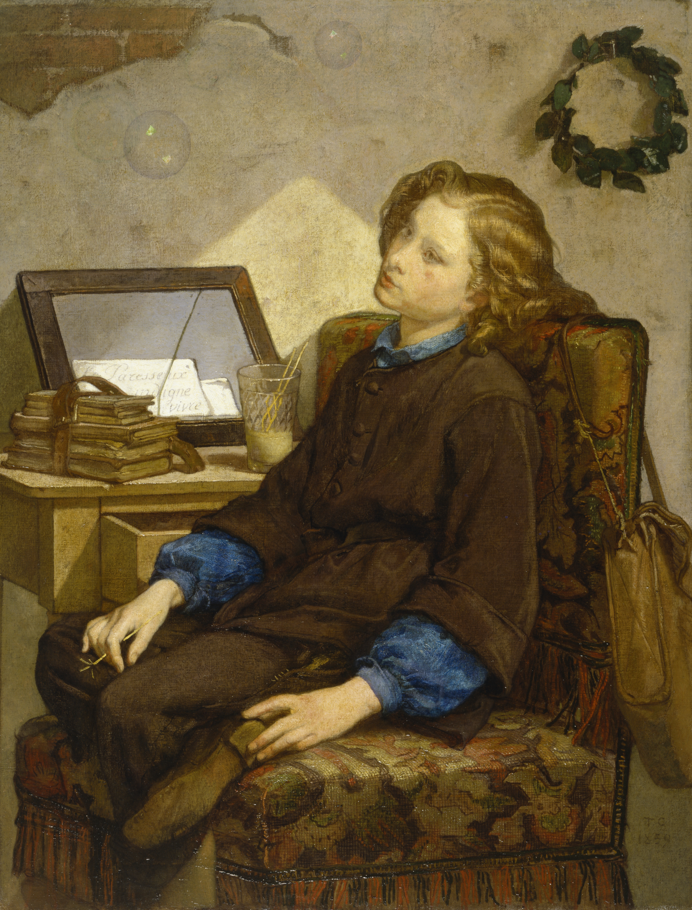 Since the 16th century, a figure blowing bubbles has served as an allegory for the vice of vanity. A schoolboy slouches on a chair beside his unopened books as bubbles drift overhead. The note tucked in the broken glass reads: "Le Parasseux indigne de vivre" (the lazy one unworthy of living). The soap bubbles and the crumbling wall suggest the fleeting nature of time, and the laurel wreath symbolizes glory ignored. Rejecting prevailing academic traditions, Couture developed a highly personal technique involving bright colors and expressive paint textures, which was based on his studies of Venetian works in the Louvre Museum. He frequently depicted contemporary subjects but filled them with moral overtones. An influential teacher, Couture trained such artists as Edouard Manet, Puvis de Chavannes, Mary Cassatt, and Eastman Johnson.